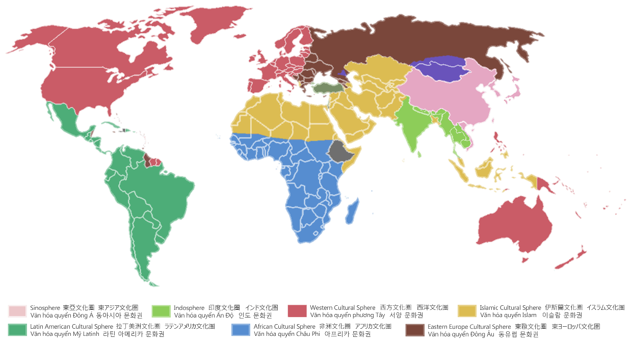 World's major cultural spheres (kulturkreis).